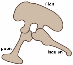 Translated into Spanish